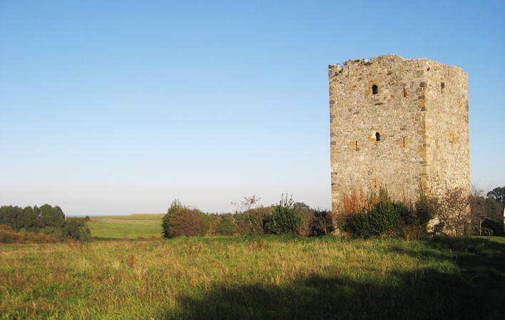 Middle age construction, located in Asturias, Spain.